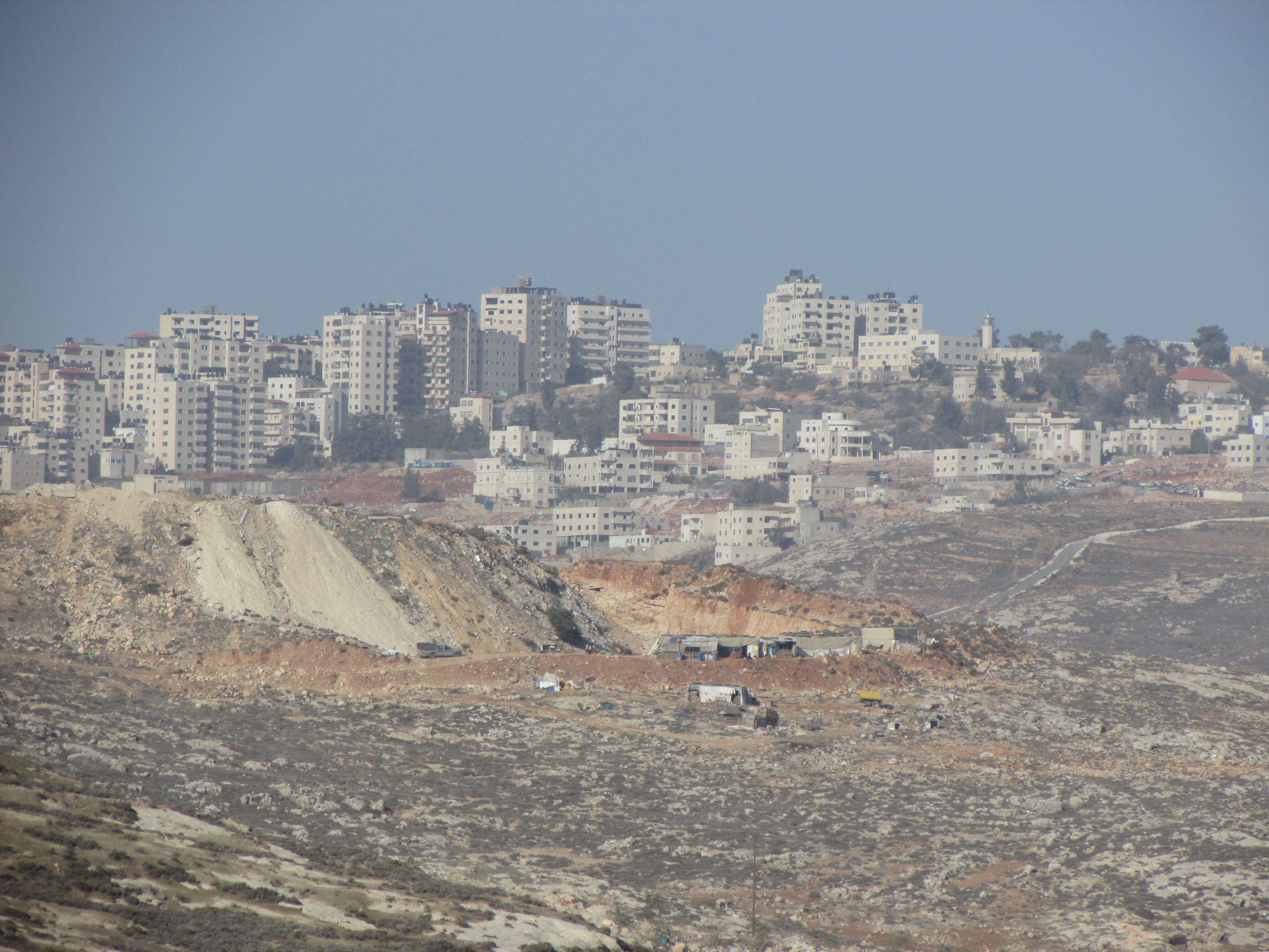 Kafr 'Aqab from the east